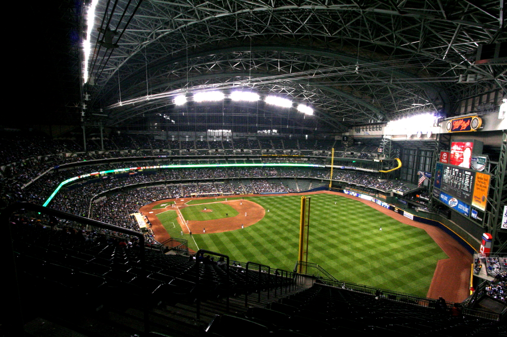 Wide angle shot of Miller Park at night.